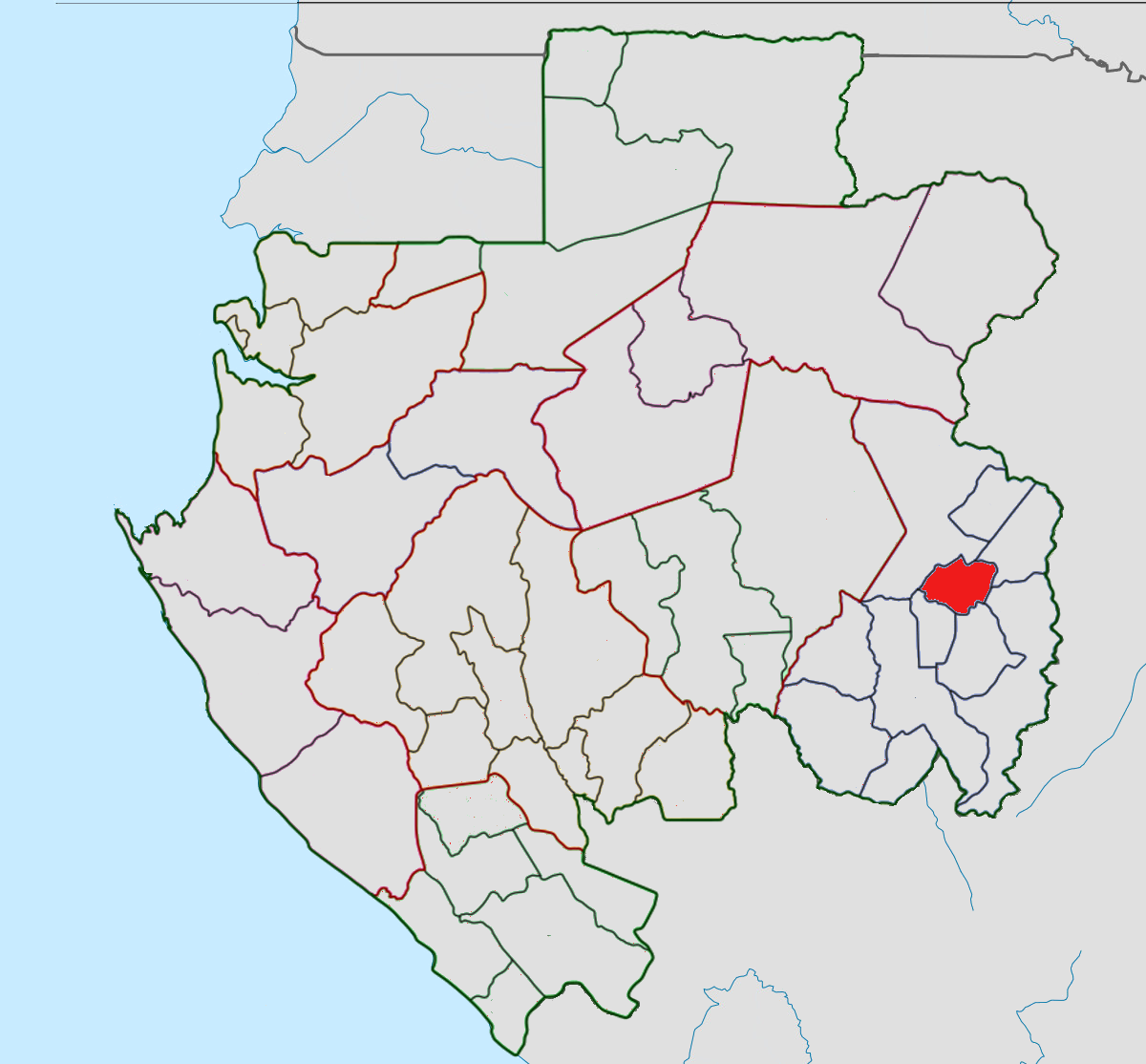 map of lékoni-lékori